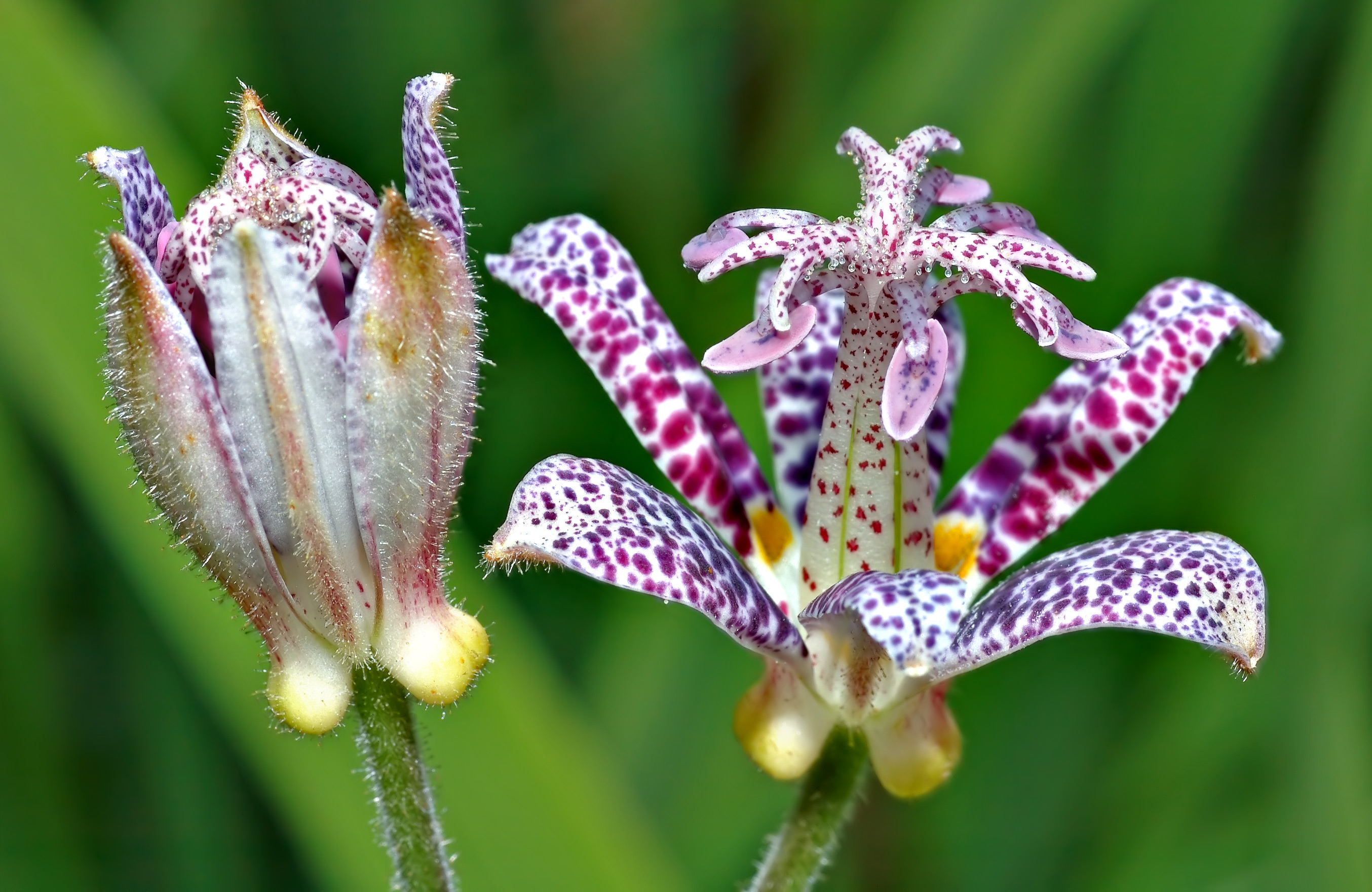 This image shows a Hairy Toad Lily (Tricyrtis hirta).